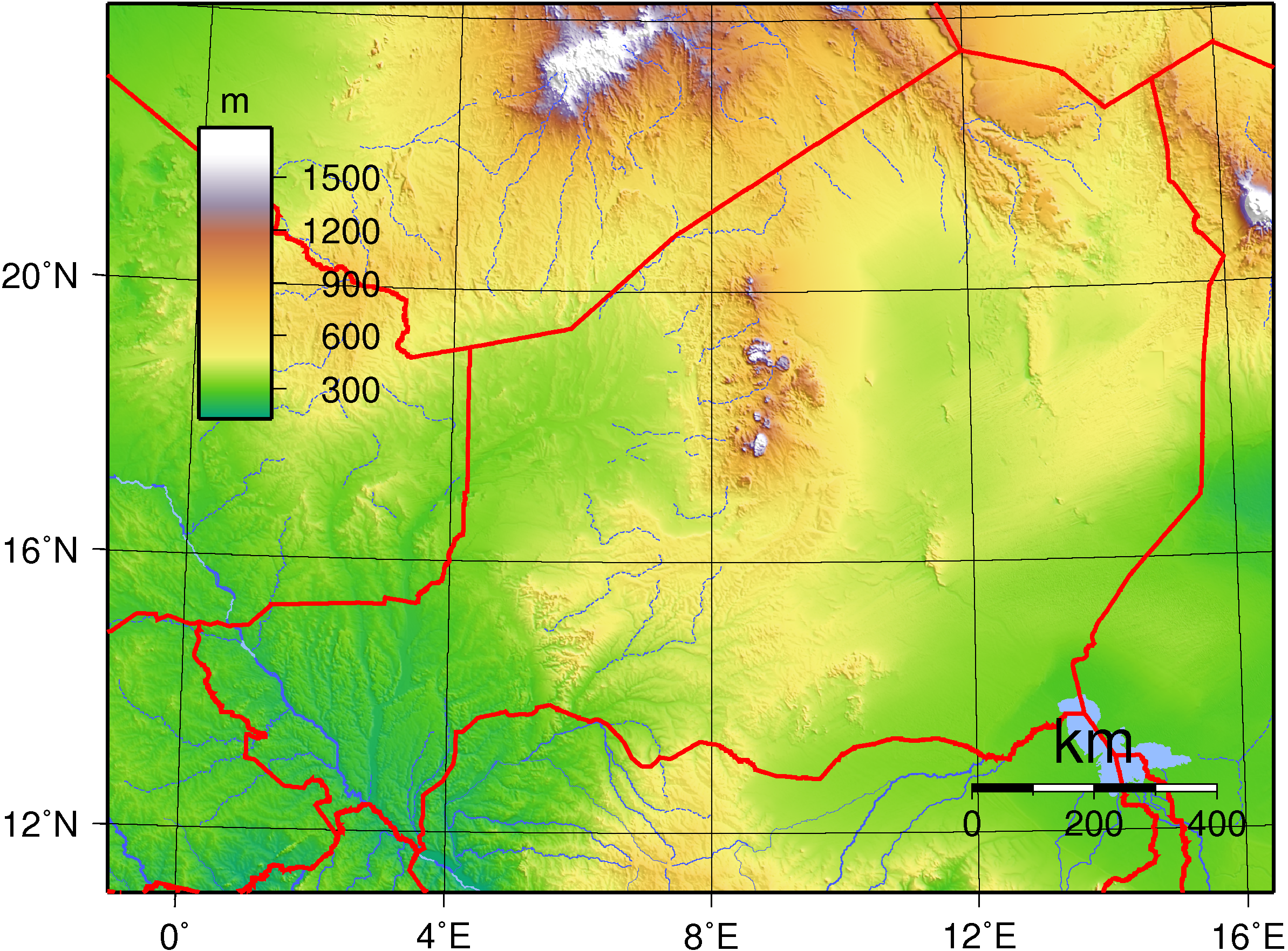 Topographic map of Niger. Created with GMT from publicly released GLOBE data.